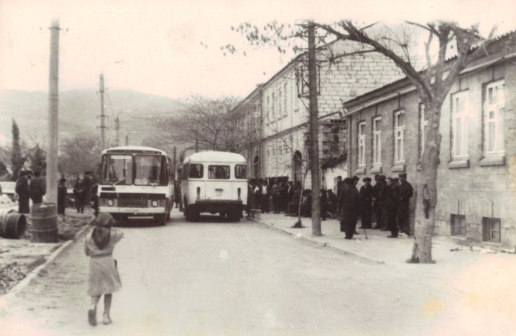 DERBET,DAGESTAN, IN THE 80'S